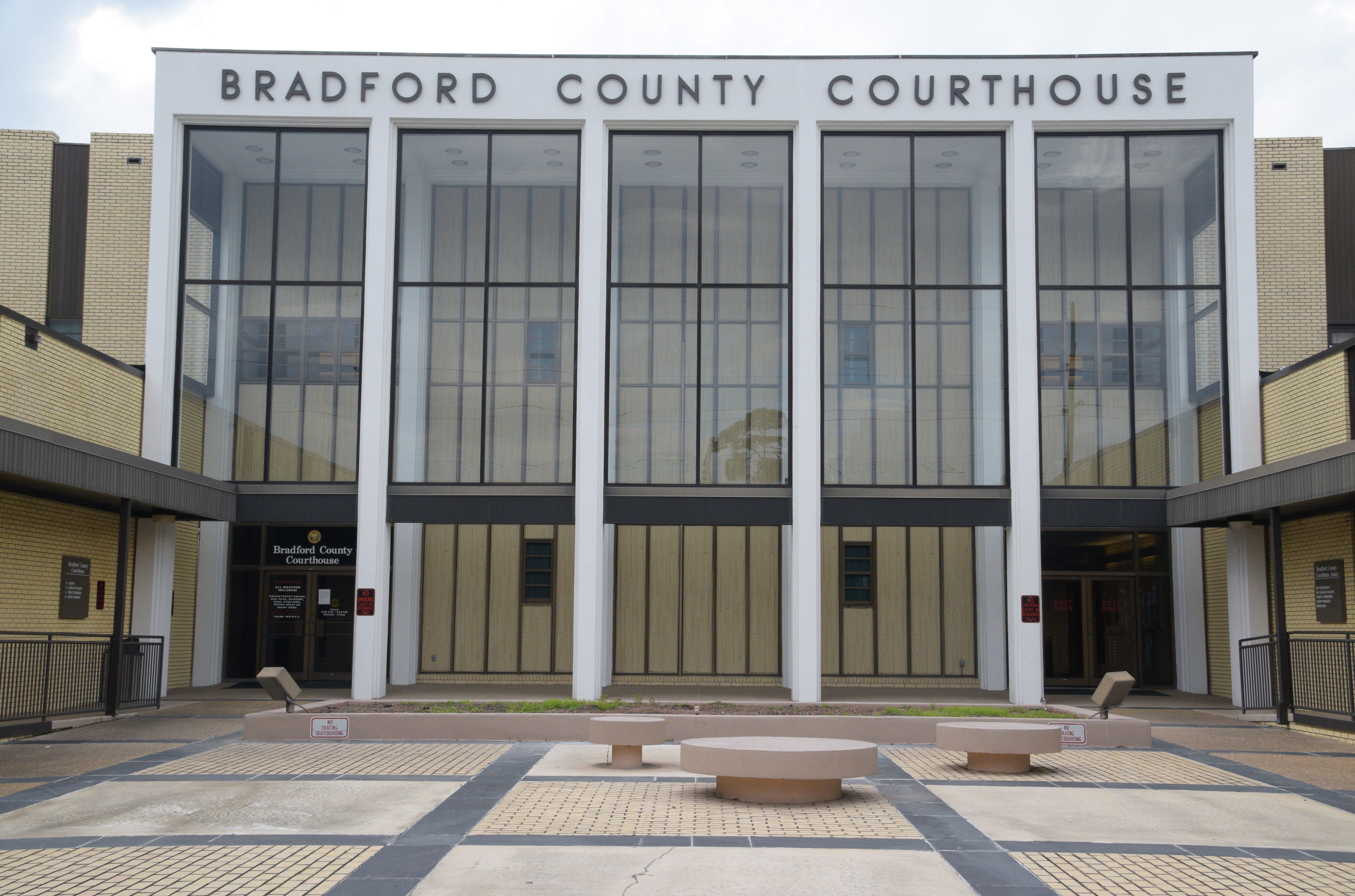 Courthouse in Bradford County, Florida